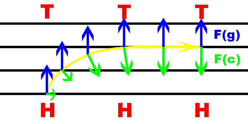 A picture describing the geostrophic balance.